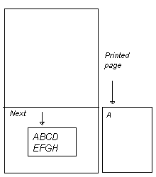 b figura